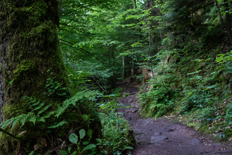 Monbach, Maisgraben und St. Leonhardquelle (2 Teilgebiete) Hiking path through Monbachtal